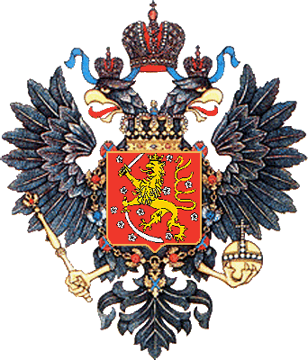 oat of arms of the Grand Duchy of Finland.